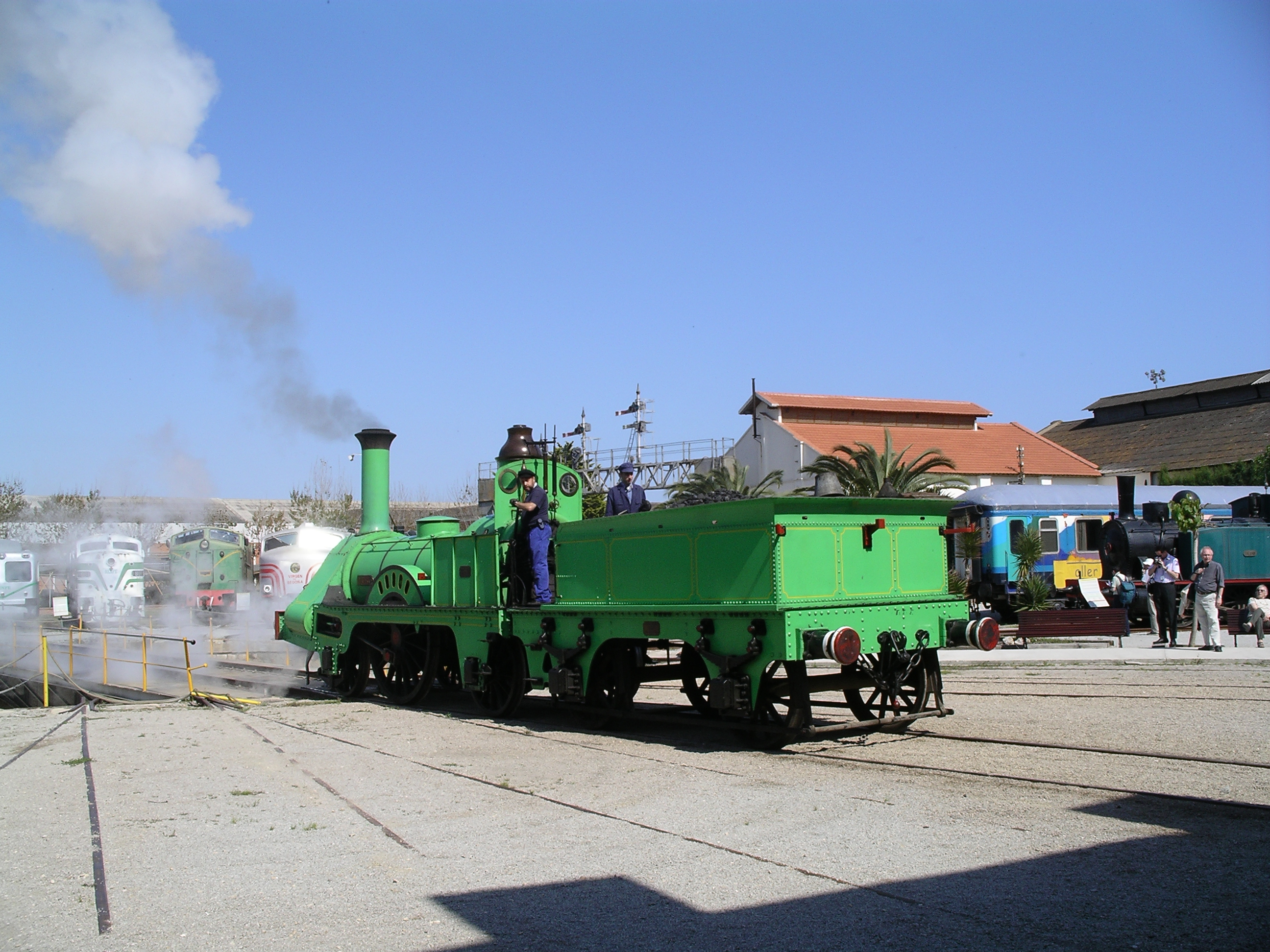 Steam Locomotive "Tren del centenari 1848-1948" in Vilanova Railway museum, Vilanova i la Geltrú, Catalonia, Spain